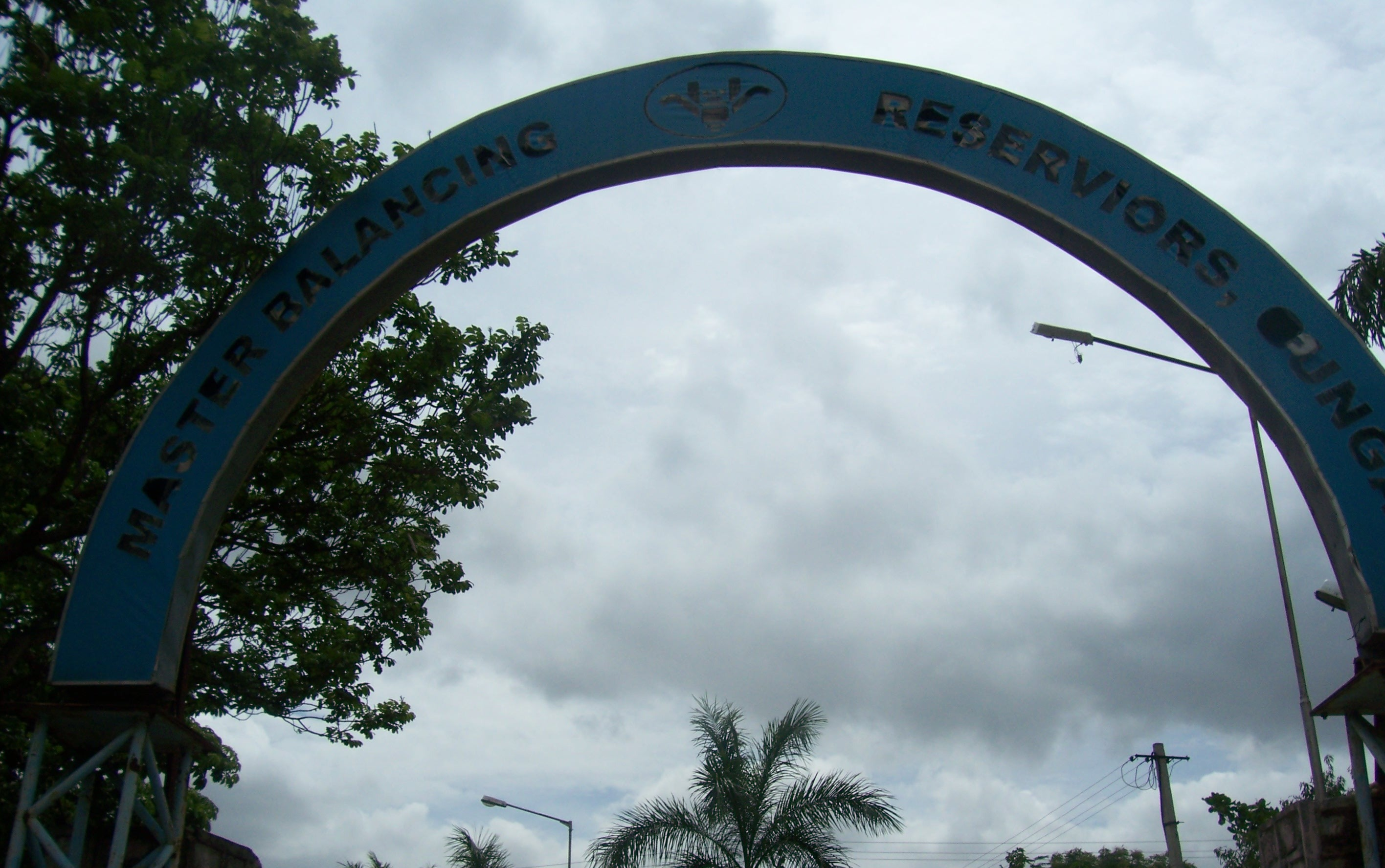 reservoyar